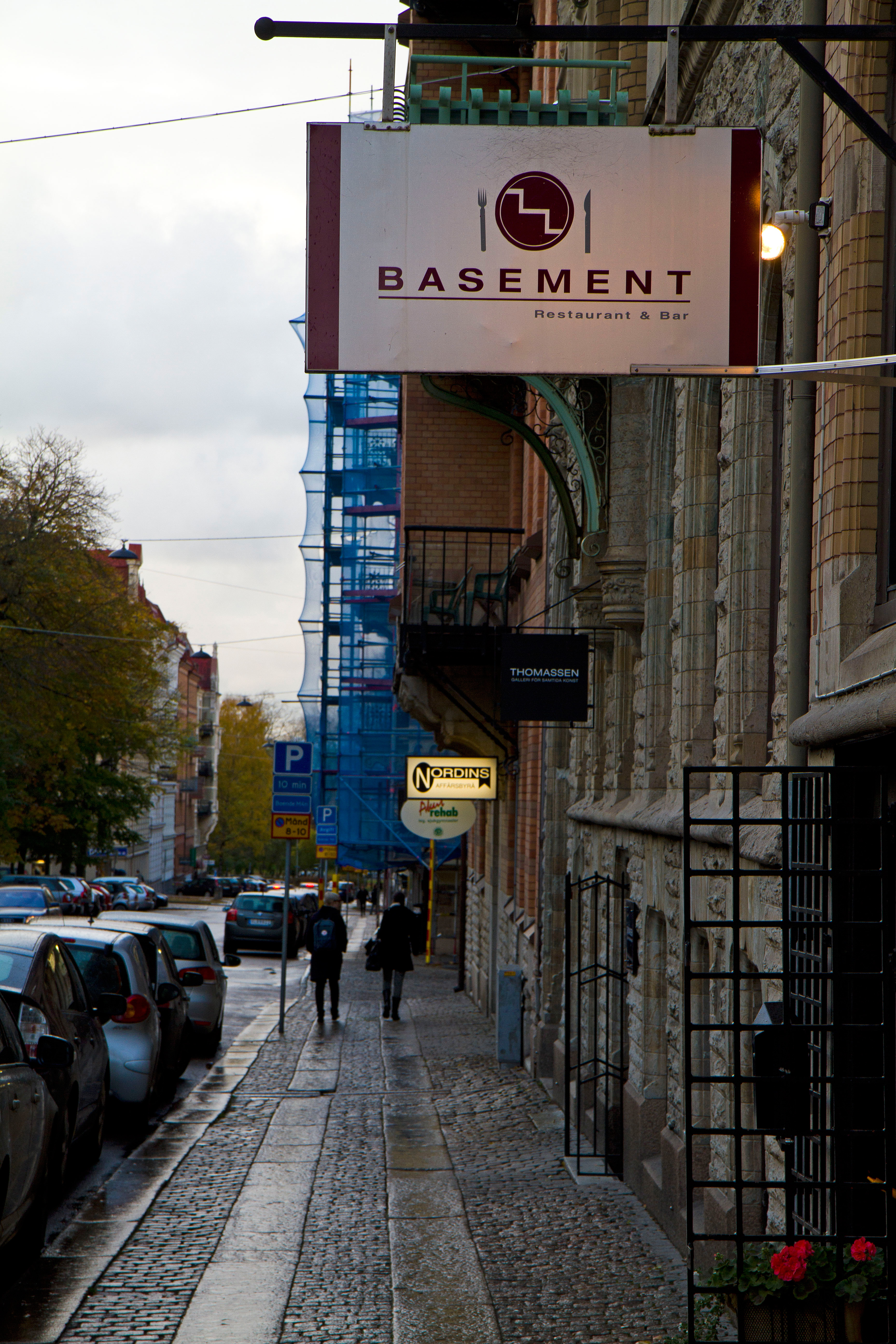 Basement, Restaurant in Gothenburg with one star in Guide Michelin